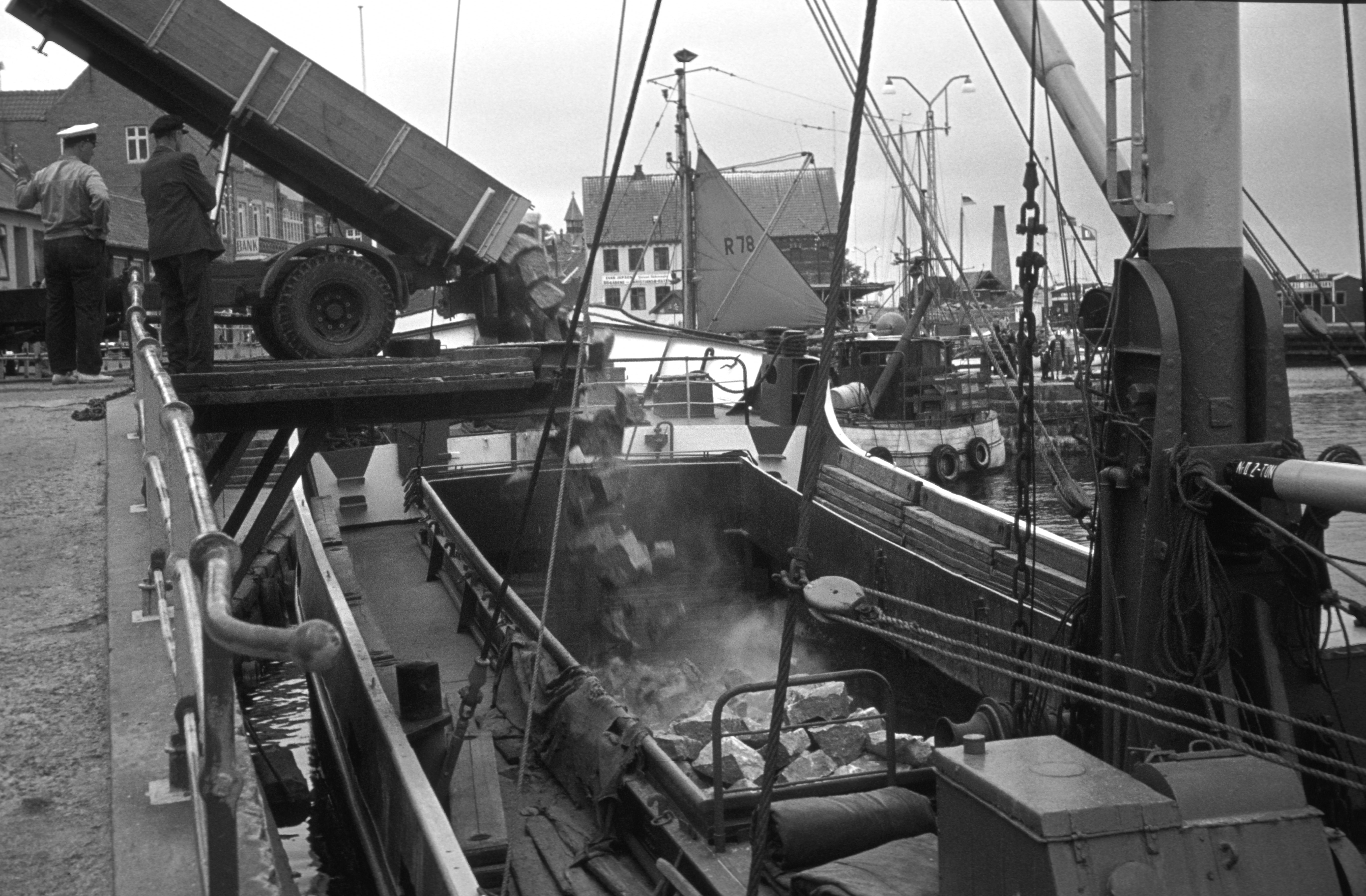 Granit er lastet på det tyske skib "Marret B." i Allinge havn, 1971